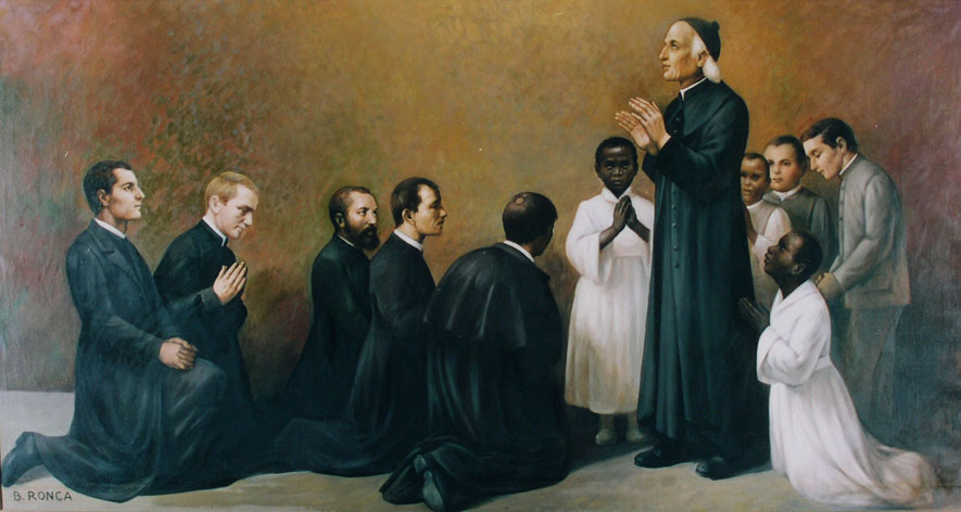 Don Mazza benedice i missionari, painting of Benvenuto Ronca. The painting is in Don Mazza Institute's headquarter in Verona, Italy